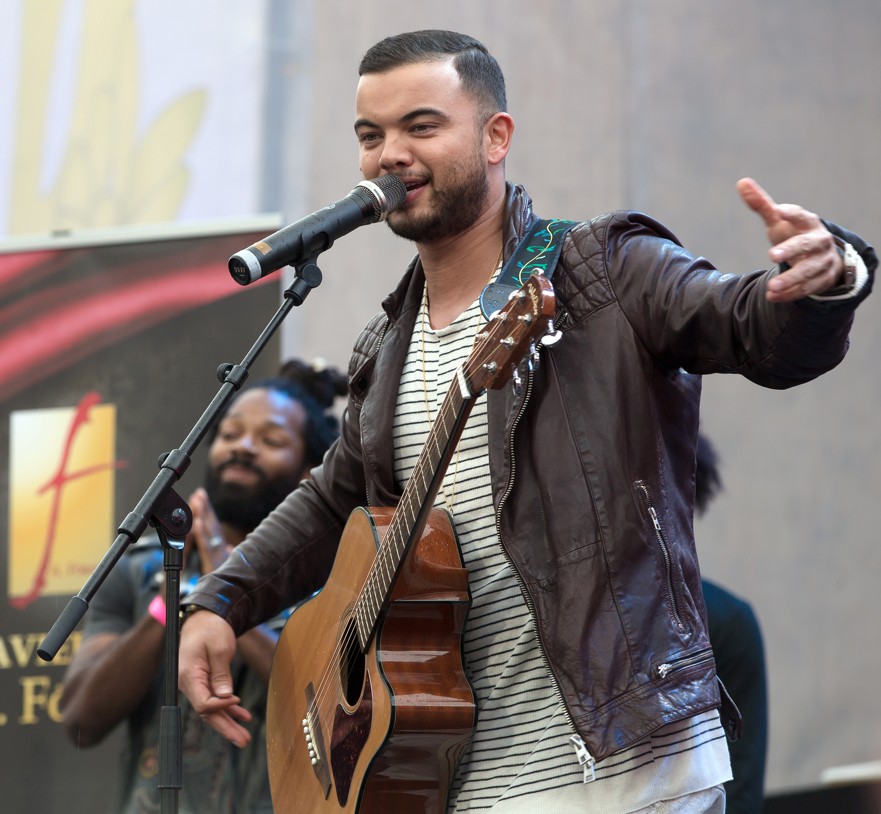 Guy Sebastian, Australias participant at the Eurovision Song Contest 2015, concert at Eurovision Village on Rathausplatz in Vienna, Austria.